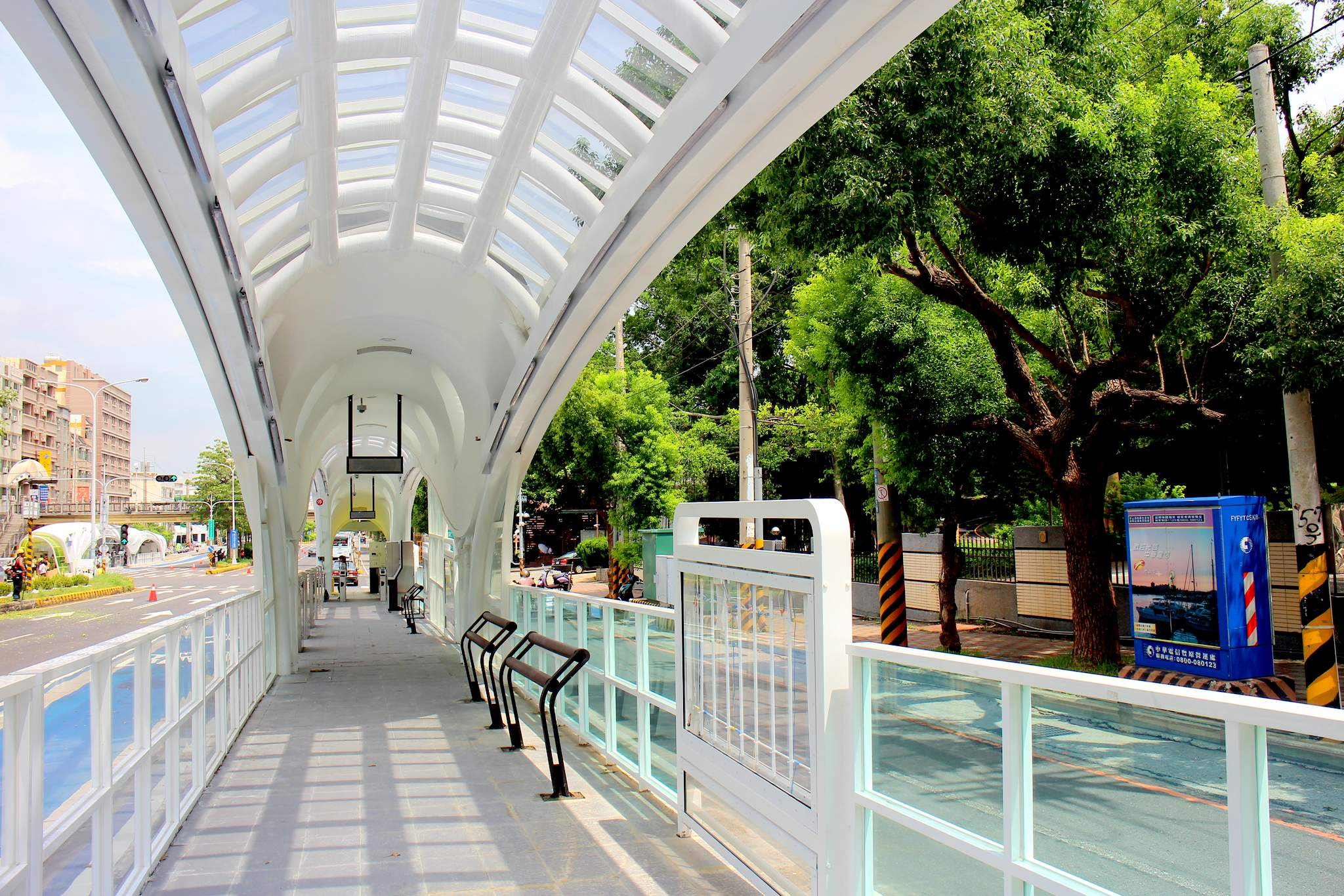 Taichung BRT - Providence University station